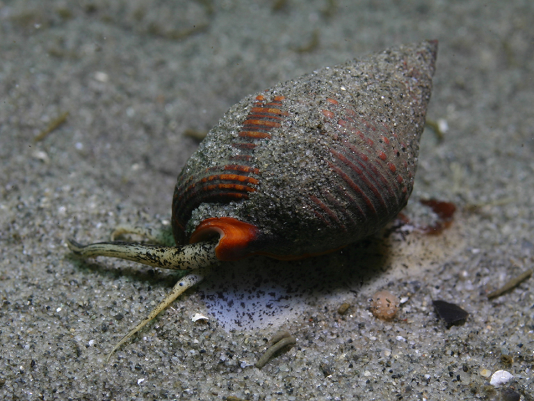 A snail in the genus Nassarius, likely Nassarius tiarula, crawling on the sandy bottom at the north side of A-tier in Monterey Harbor. The long siphon probes are in front of the foot and cephalic tentacles.